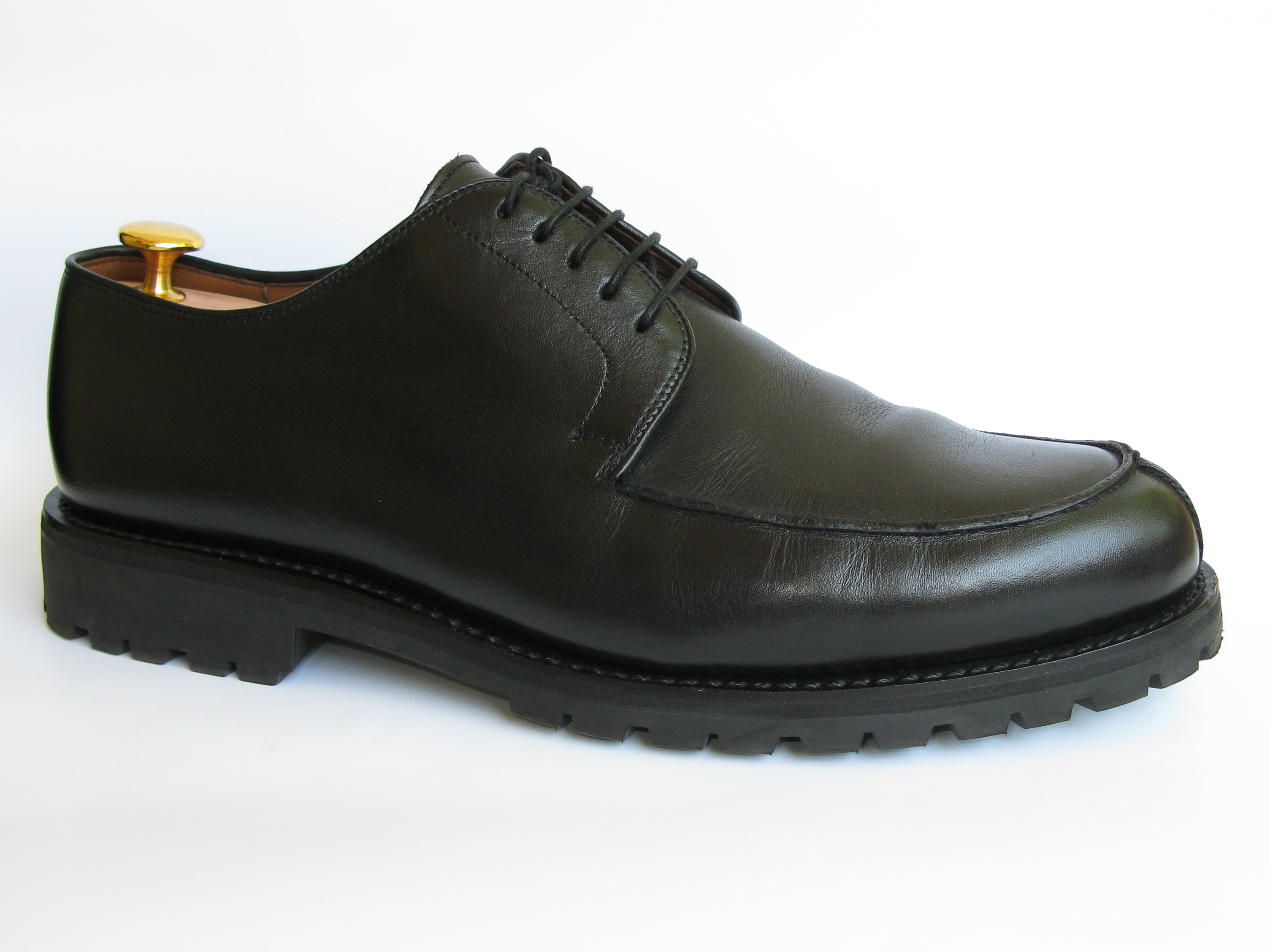 Black Norway Shoe with rubber sole